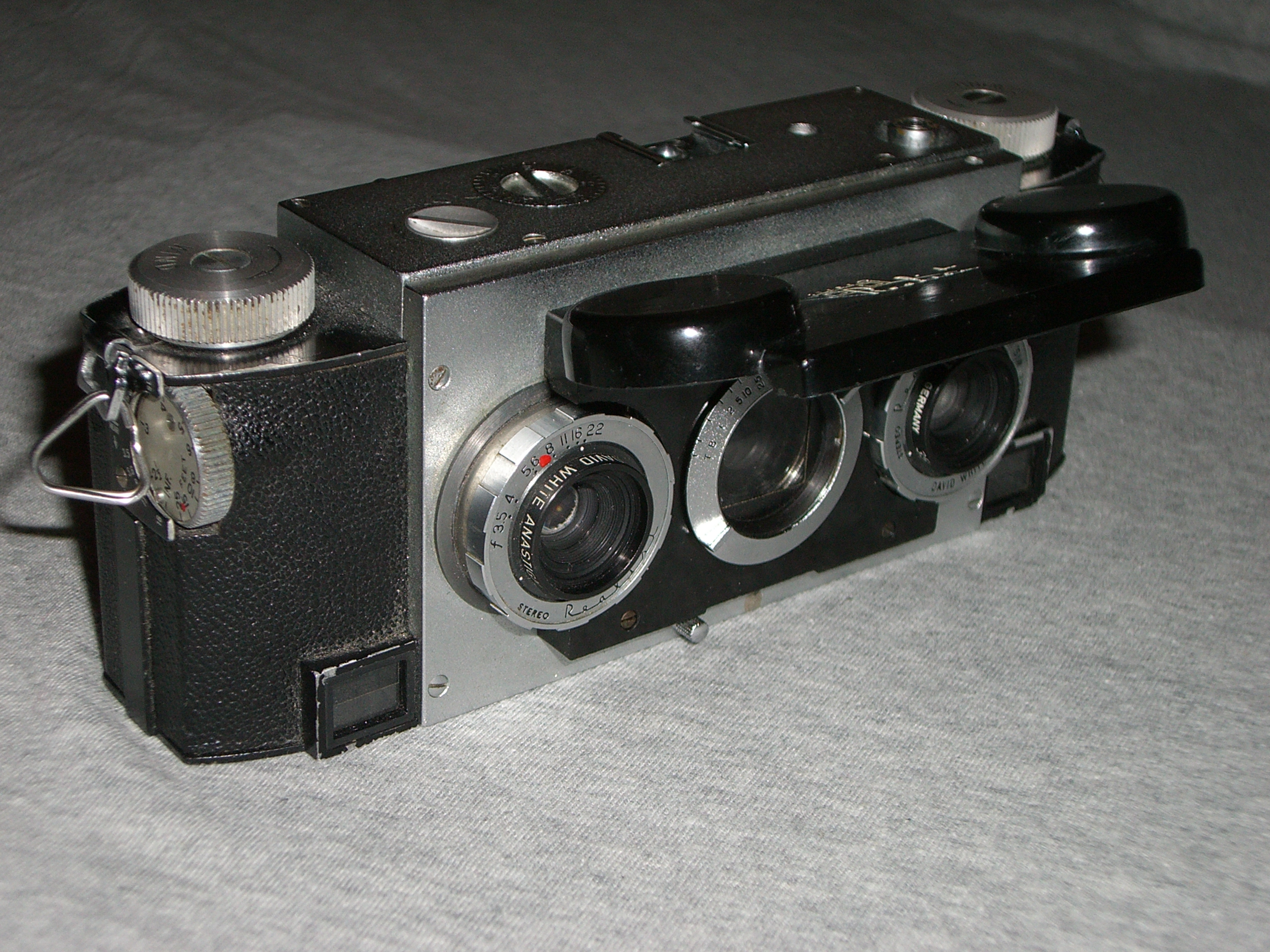 Photo of a Stereo Realist camera.